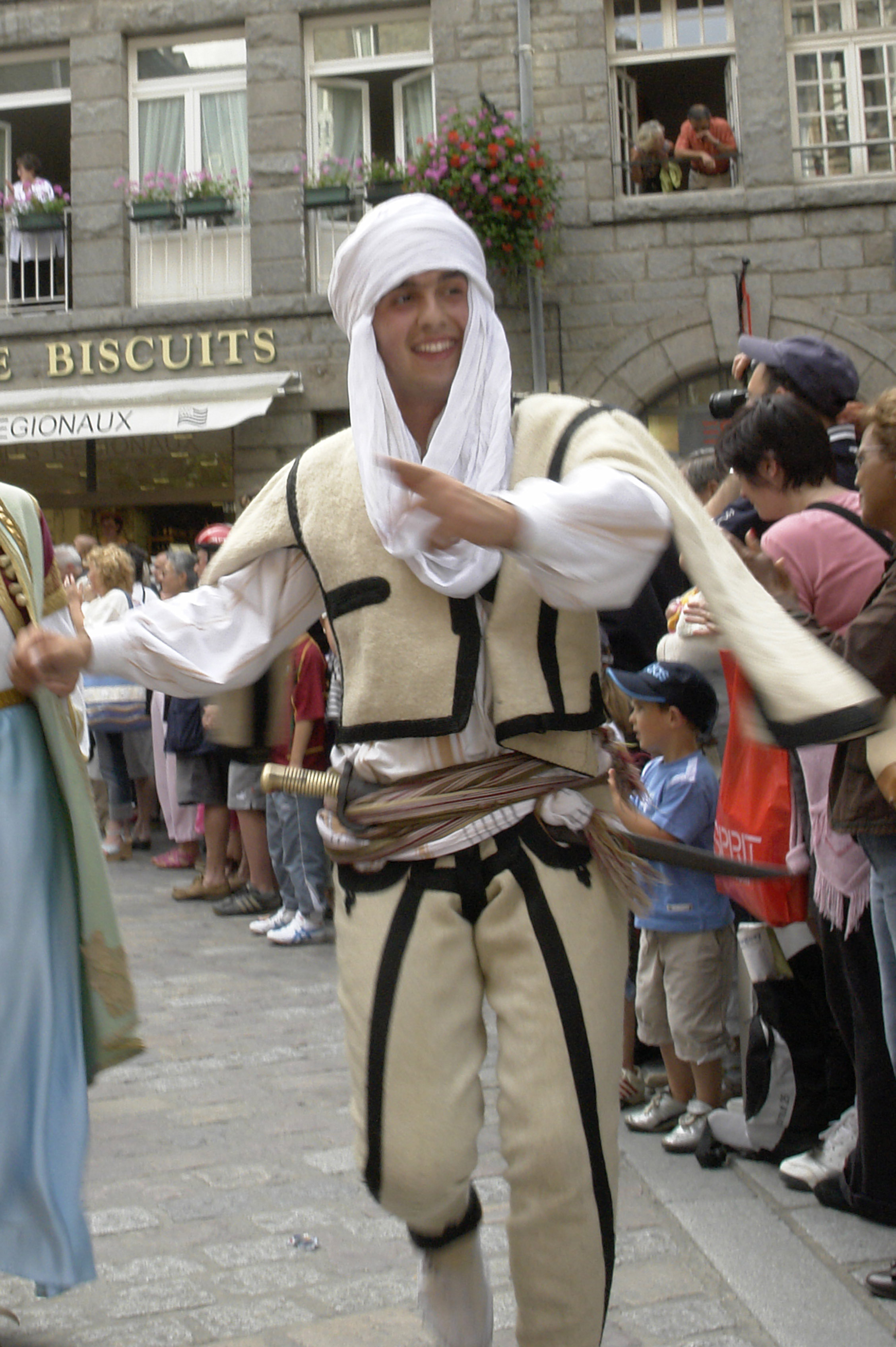 KUD "VRELO IBRA"